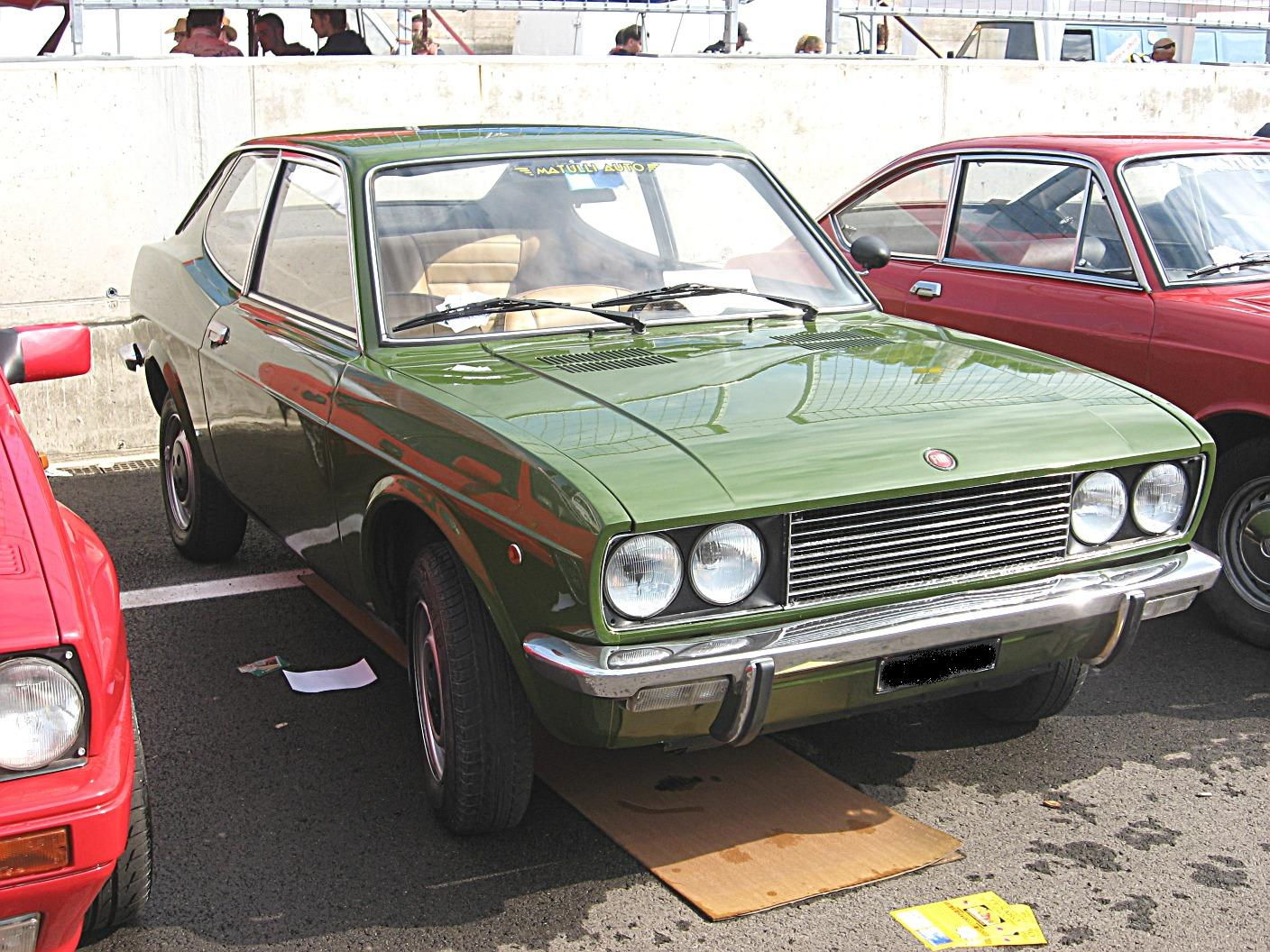 Subject: Fiat 128 Sport Date:September 14th, 2008 Event: Mostra Scambio by the Imola Circuit Place/Country: Imola (BO), Italy I release all rights in the public domain.